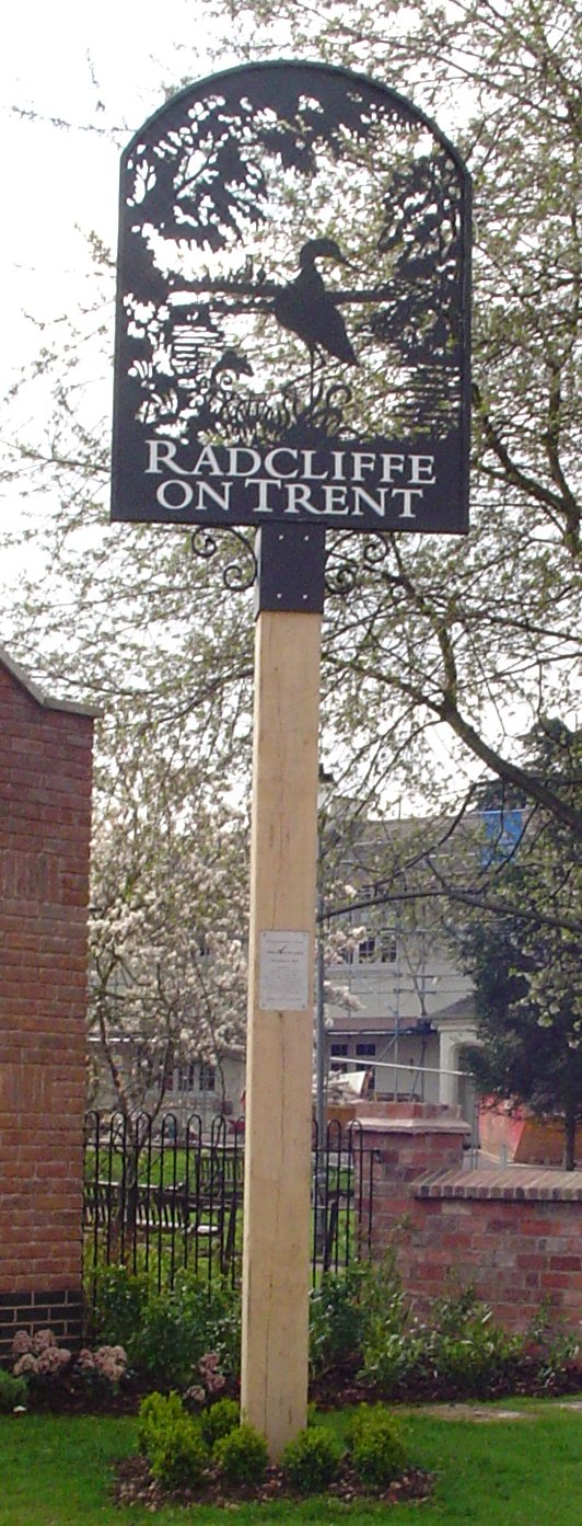 Signpost in Radcliffe on Trent